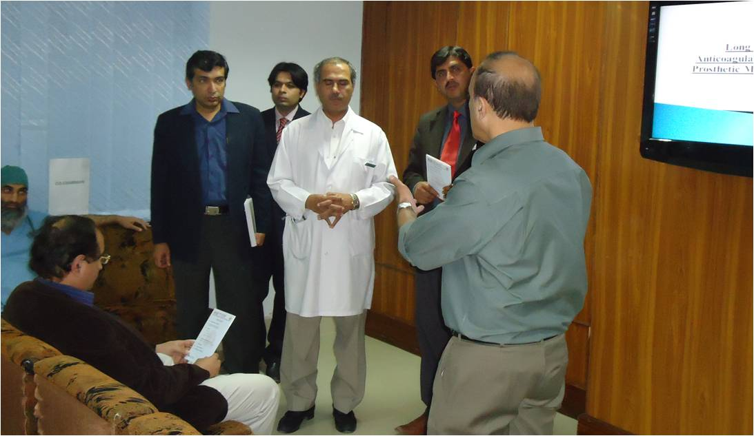 Academic Session at MIC during GP's Workshop 2012-0105